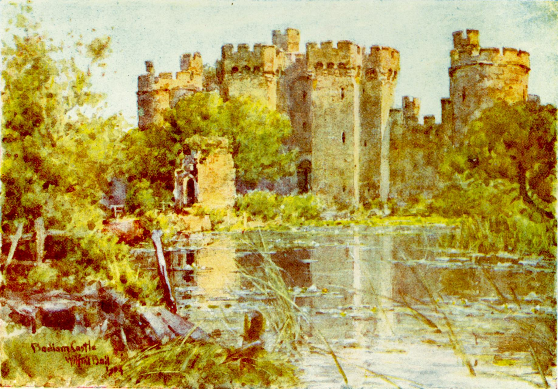 Bodiam Castle painted by Wilfrid Ball in "Sussex Painted" (1906).